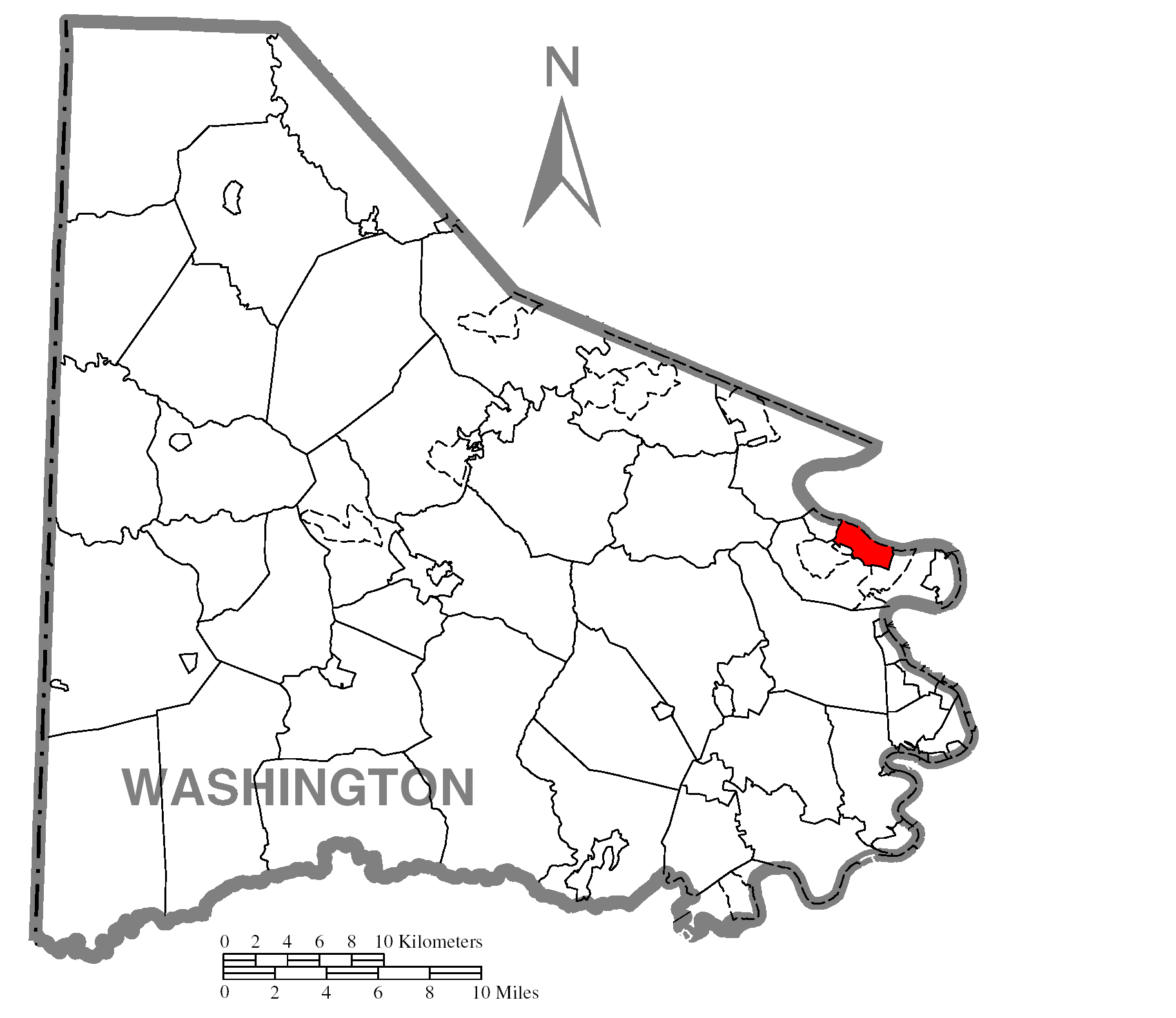 Map of Washington County higlighting Monongahela.